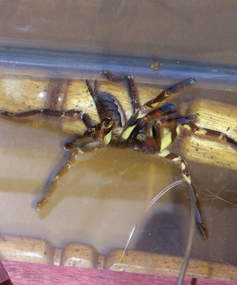 p.ornata threat pose